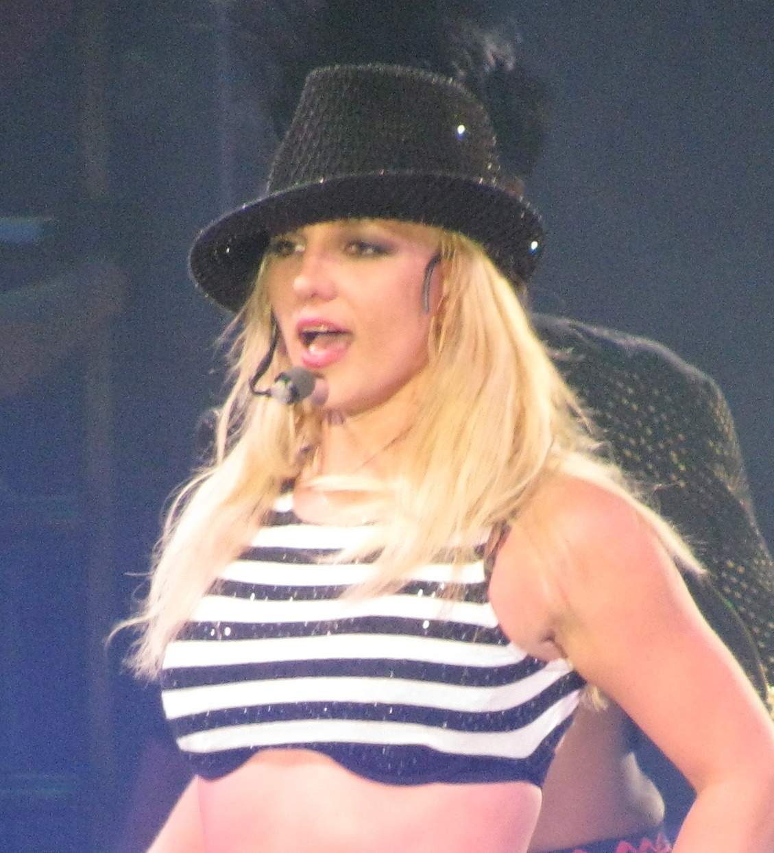 Performing ...Baby One More time at The Circus Starring Britney Spears